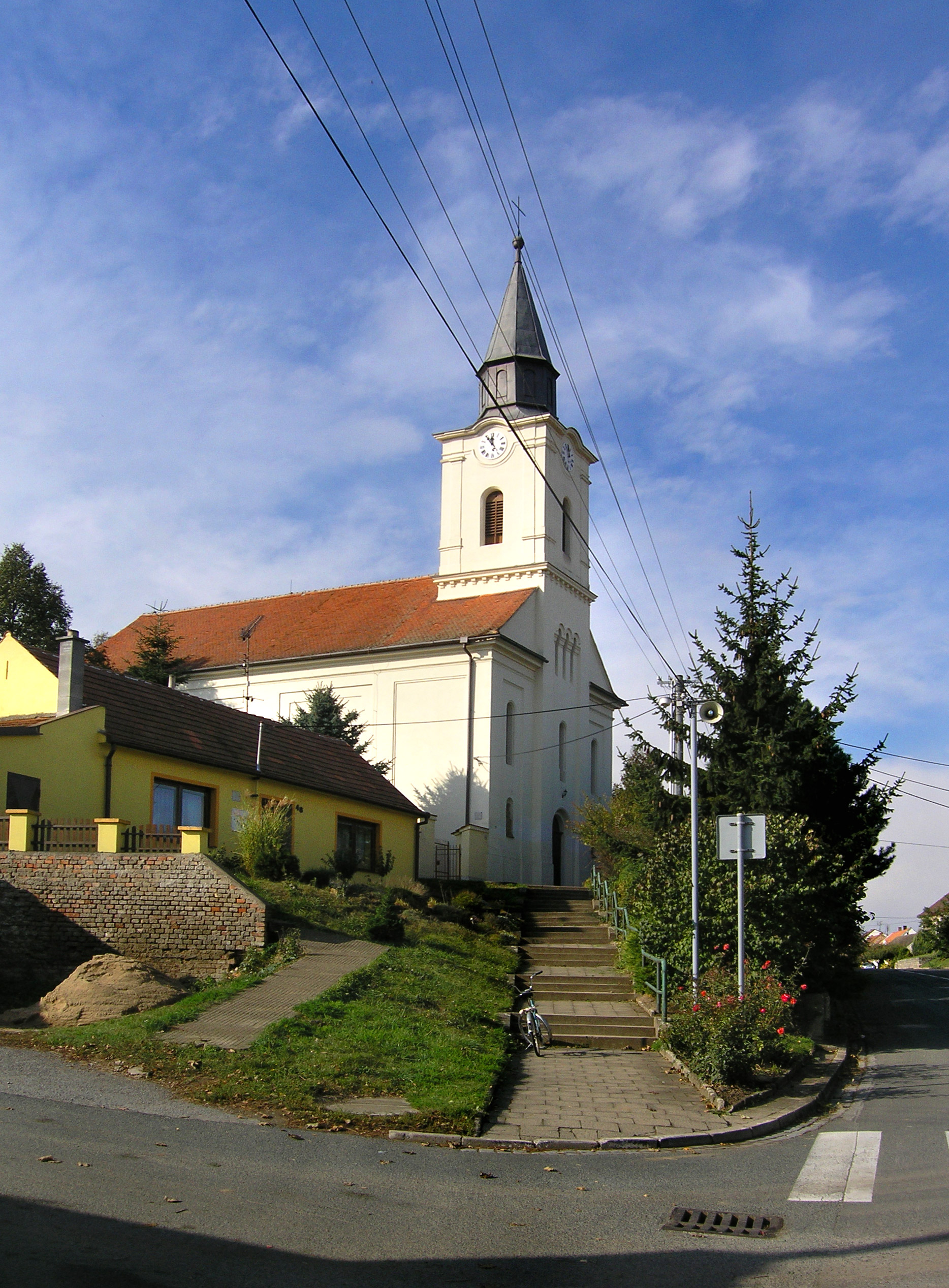 Church in Krumvíř, Czech Republic